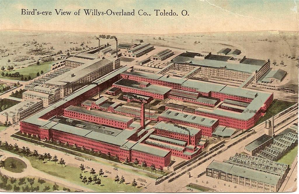 Postcard picture: aerial view of Willys-Overland Co. factory in Toledo, Ohio, postmarked 1915. Store Web page states: "advertising postcard of the Willys-Overland Co. factory in Toledo Ohio. This is a birdseye view of the factory." Web page shows view of address side of postcard with clear postmark: Toledo, Ohio, August 8, 1915